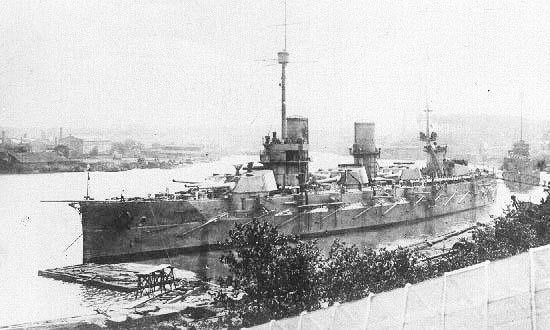 Battleship Volya (former Imperator Aleksandr III).